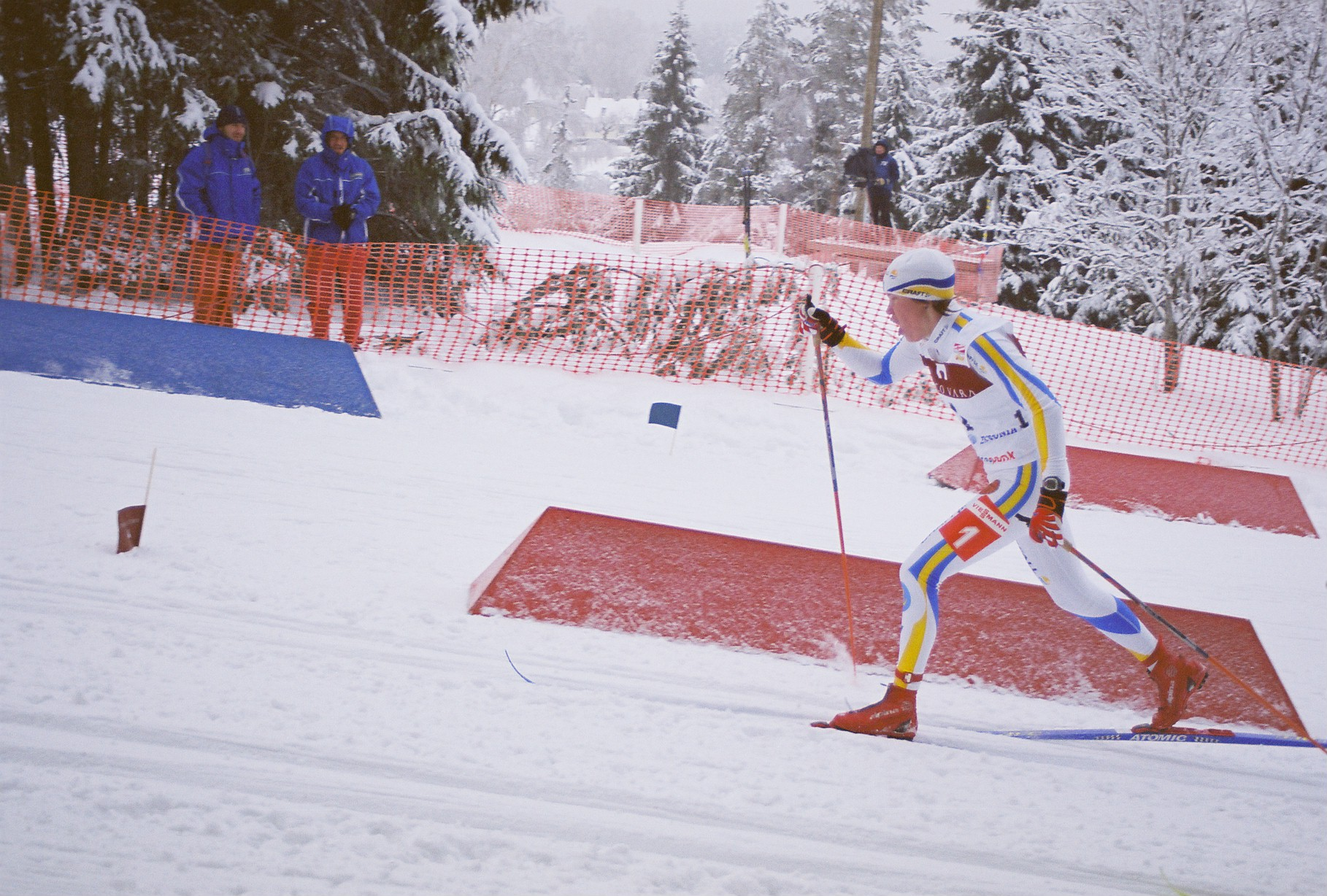 Lina Andersson, FIS World Cup Cross Country - January 7-8 2006 in Otepää, Estonia Women's Sprint